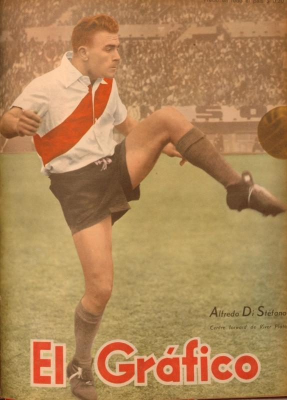 Di Stéfano for River Plate